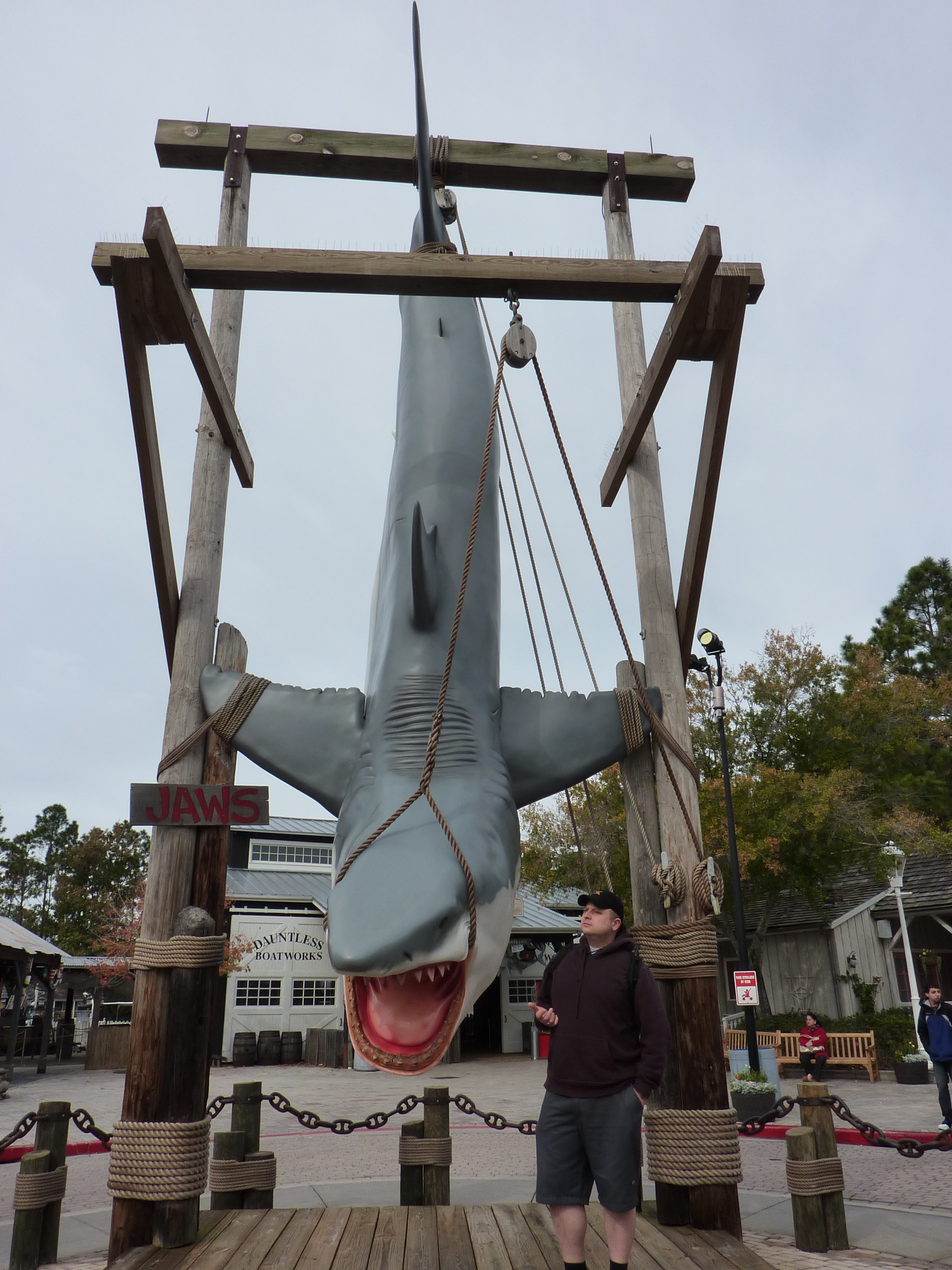 Closeup of the Jaws shark that is suspended on display outside the entrance to the Jaws attraction in Universal Studios Florida.